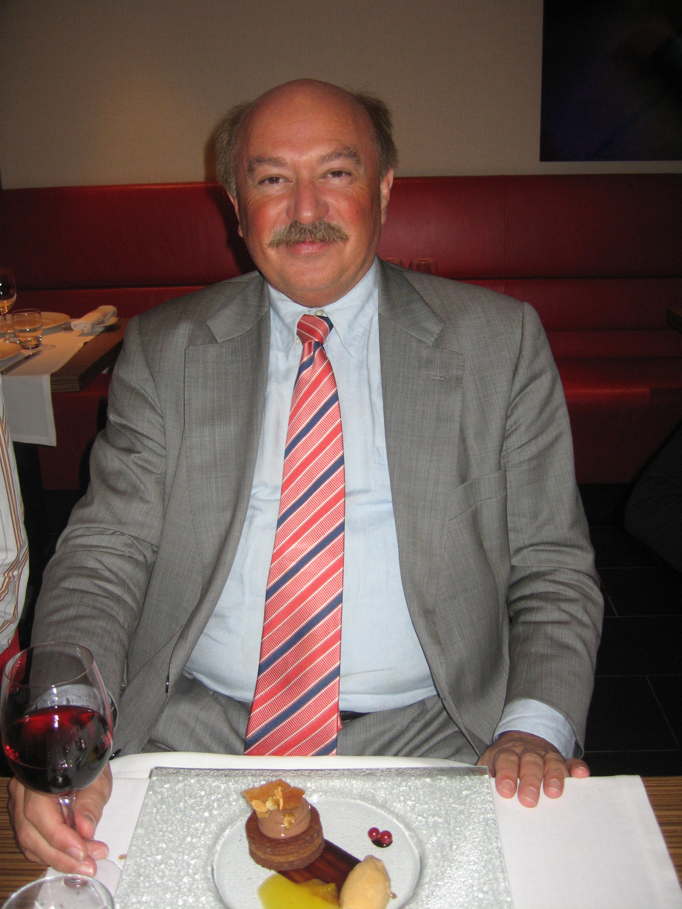 Hermann J. Huber, Barcelona 2008